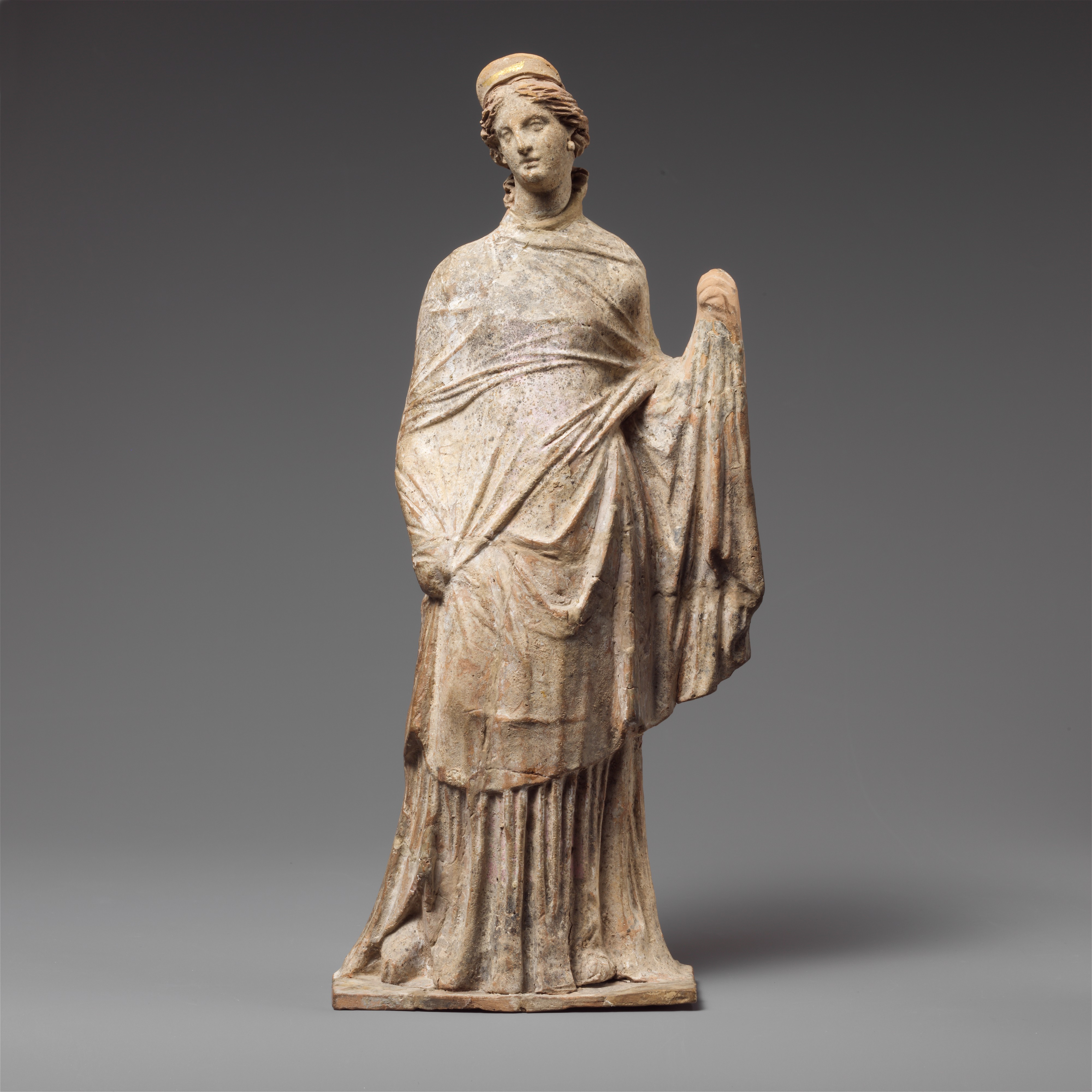 Greek, Asia Minor; Statuette of a woman; Terracottas